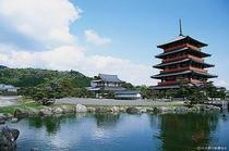 Renge-in Oku-no-in